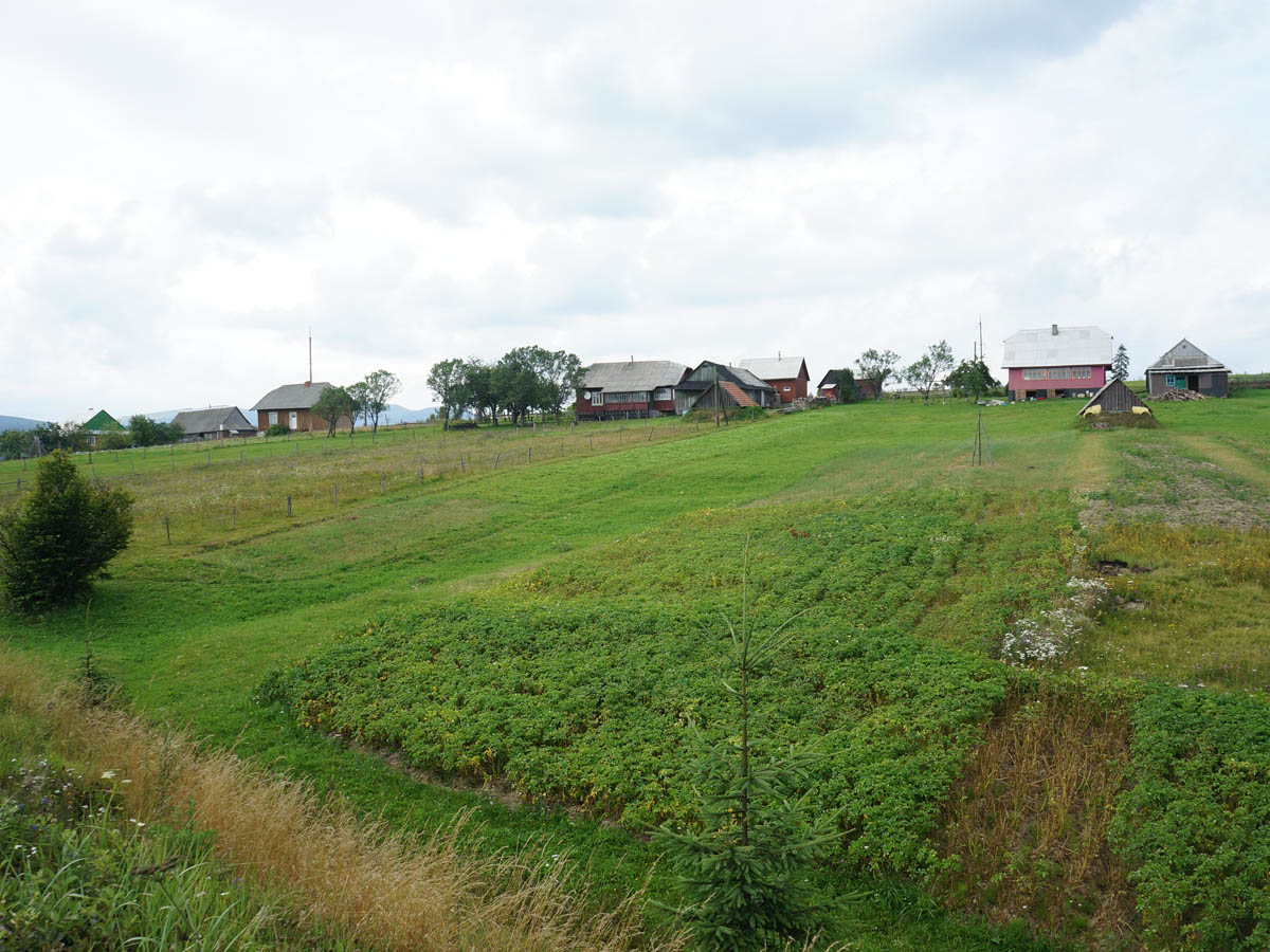 village Biniova